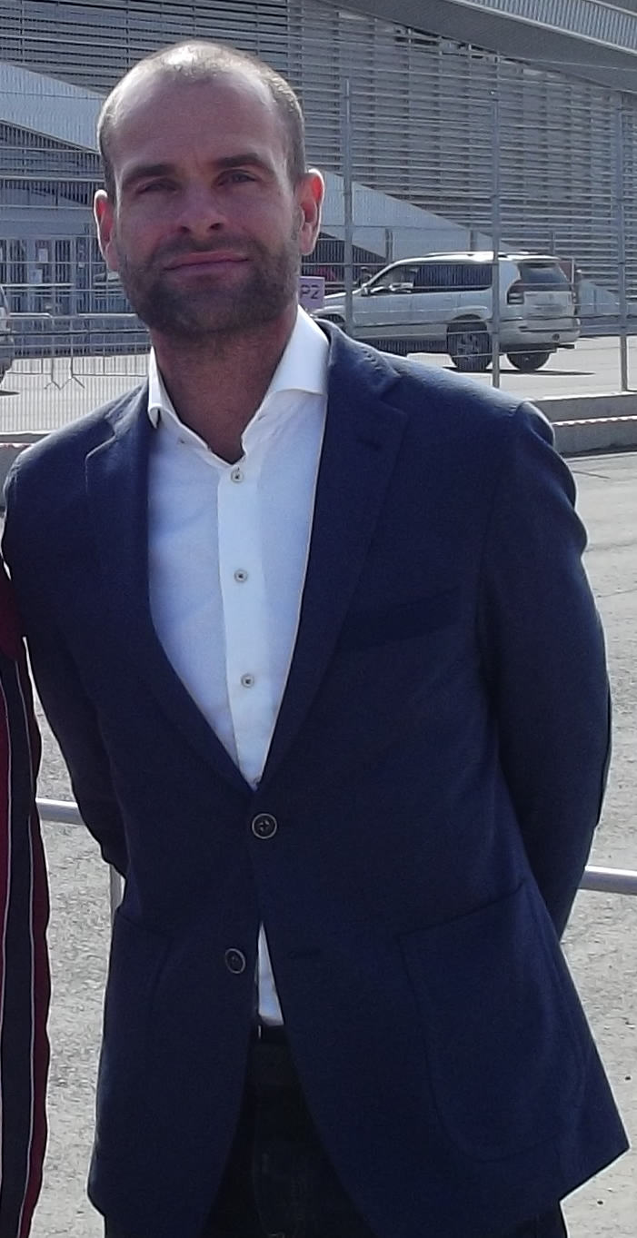 2013 World Single Distance Speed Skating Championships